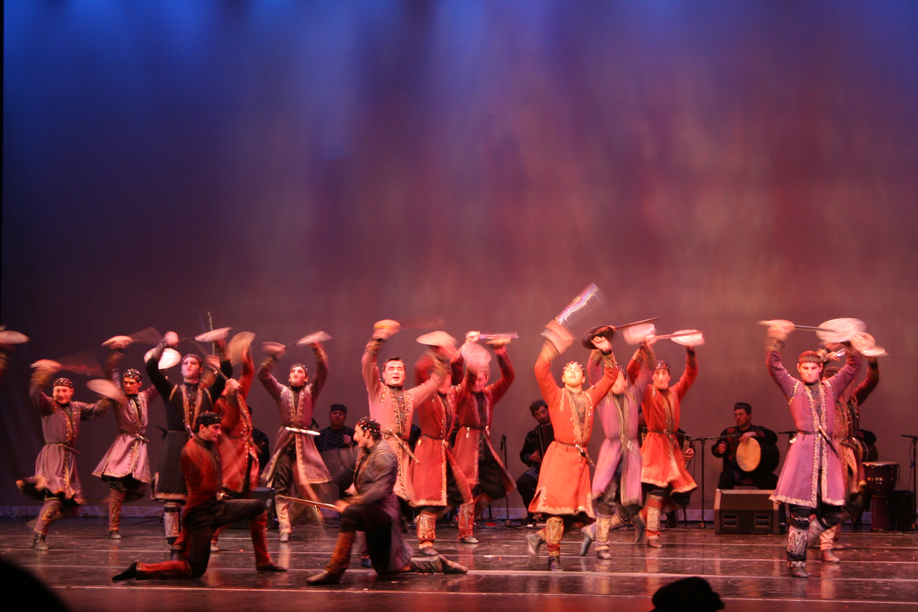 Georgian national folk dance, performed by Sukhihsvili Ensemble in New York during their US tour, Fall 2007.